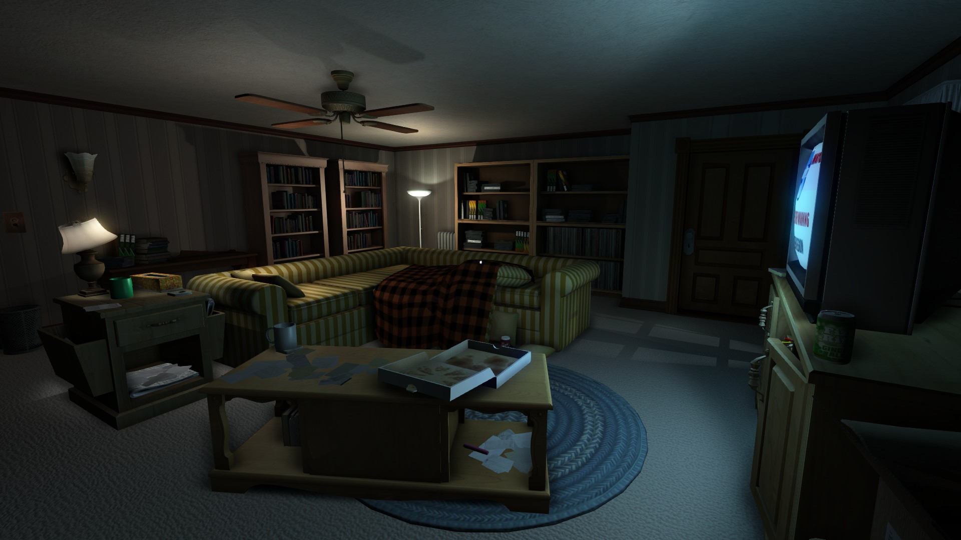 Gone Home gameplay screenshot, the player explores the TV room from a first-person perspective. Released in August 2013 by The Fullbright Company.